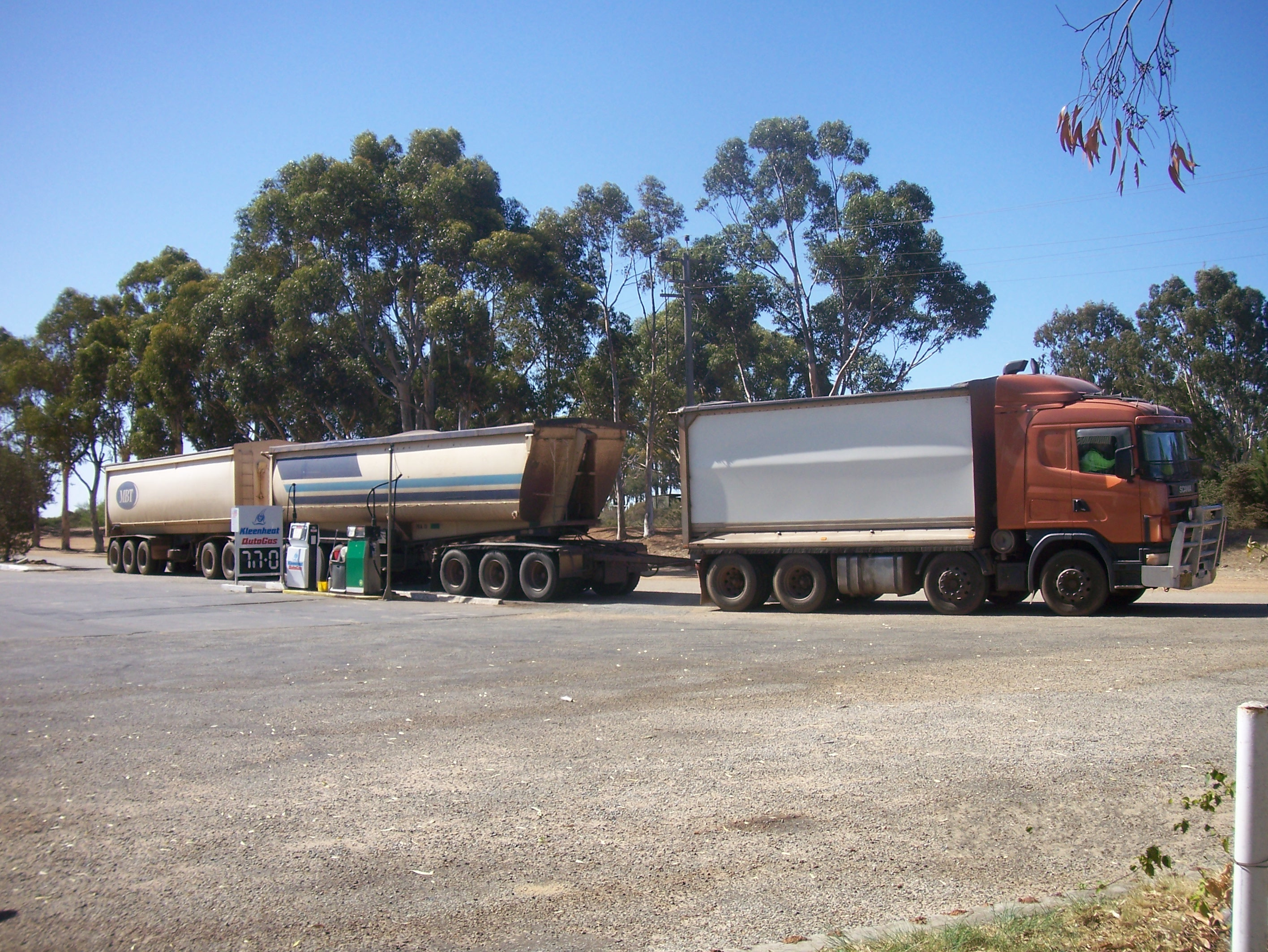 Road train